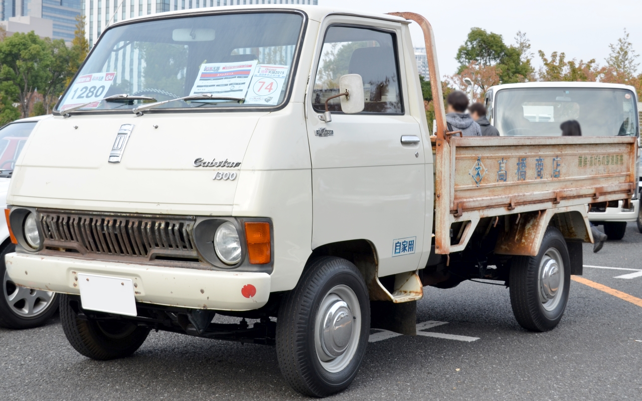 Datsun Cabstar